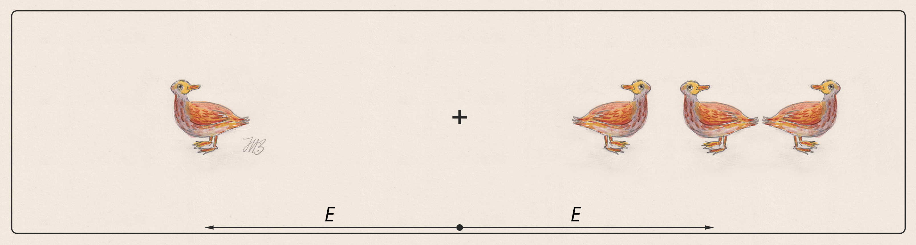 A demonstration of the visual crowding effect. When fixating the plus sign in the middle, the left duck's orientatio is easily seen, whereas that of the middle duck on the right, even though eing at the same distance from the fixation mark, is not.